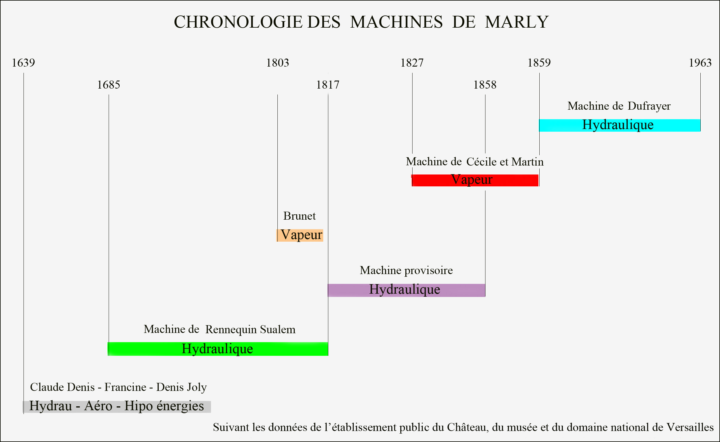 Marly Machines. Chronology the various types of Machines of Marly.